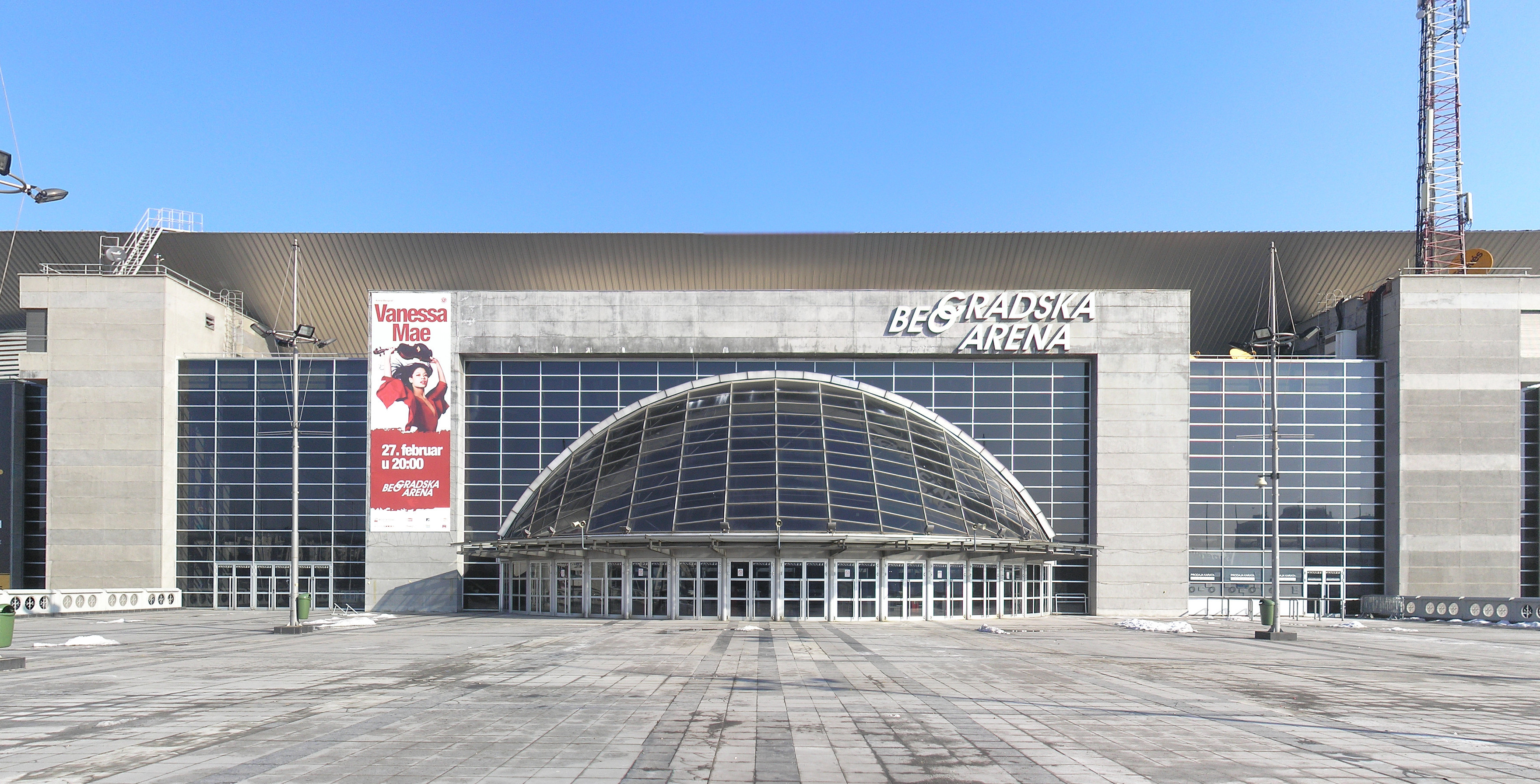 South entrance to Belgrade Arena. Photo 1 in Feb 2011.